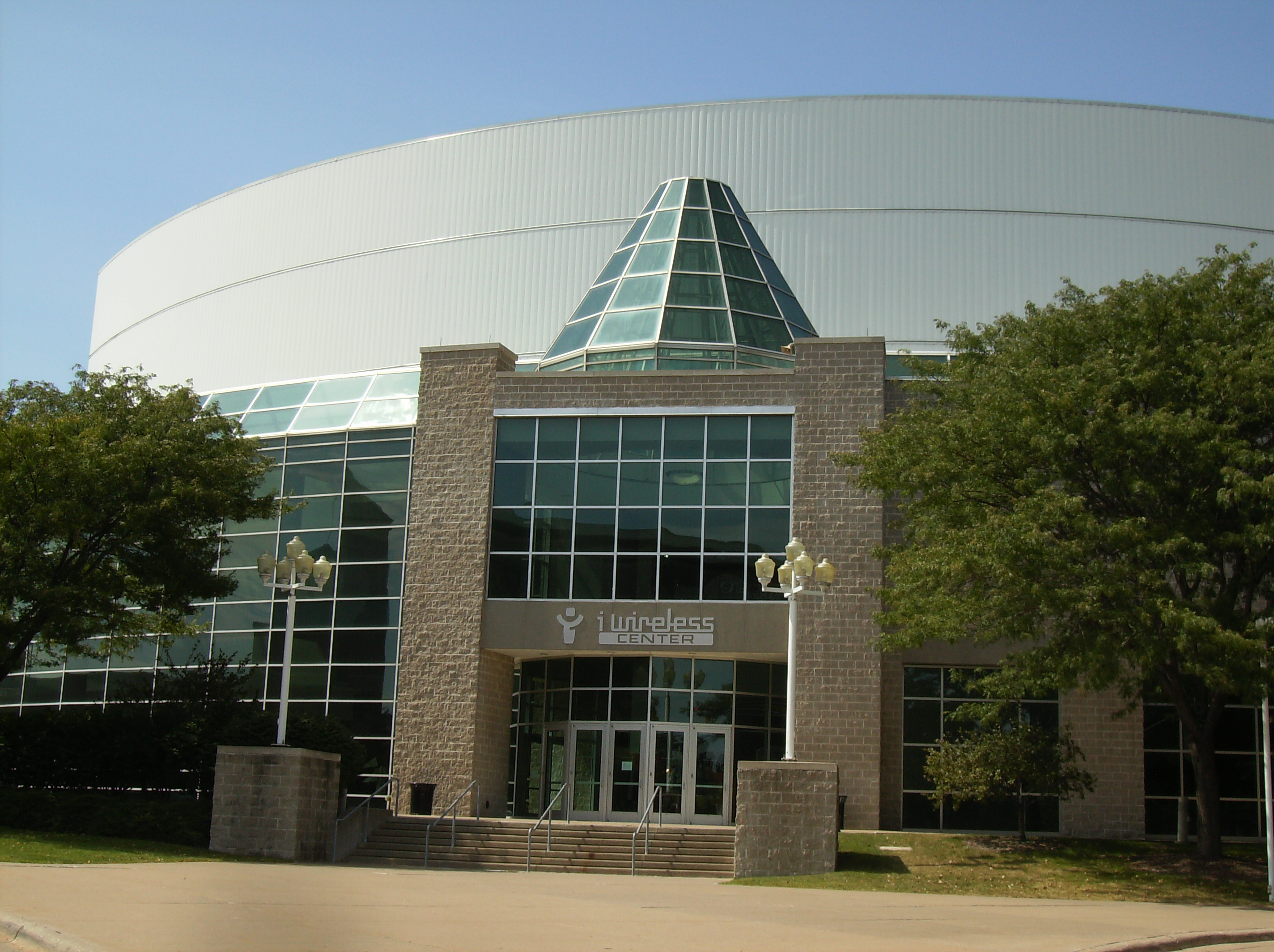 Exterior of the i wireless Center in Moline, Illinois. Photographed by User:Iowahwyman on September 5, 2010. Category:Images of Moline, Illinois